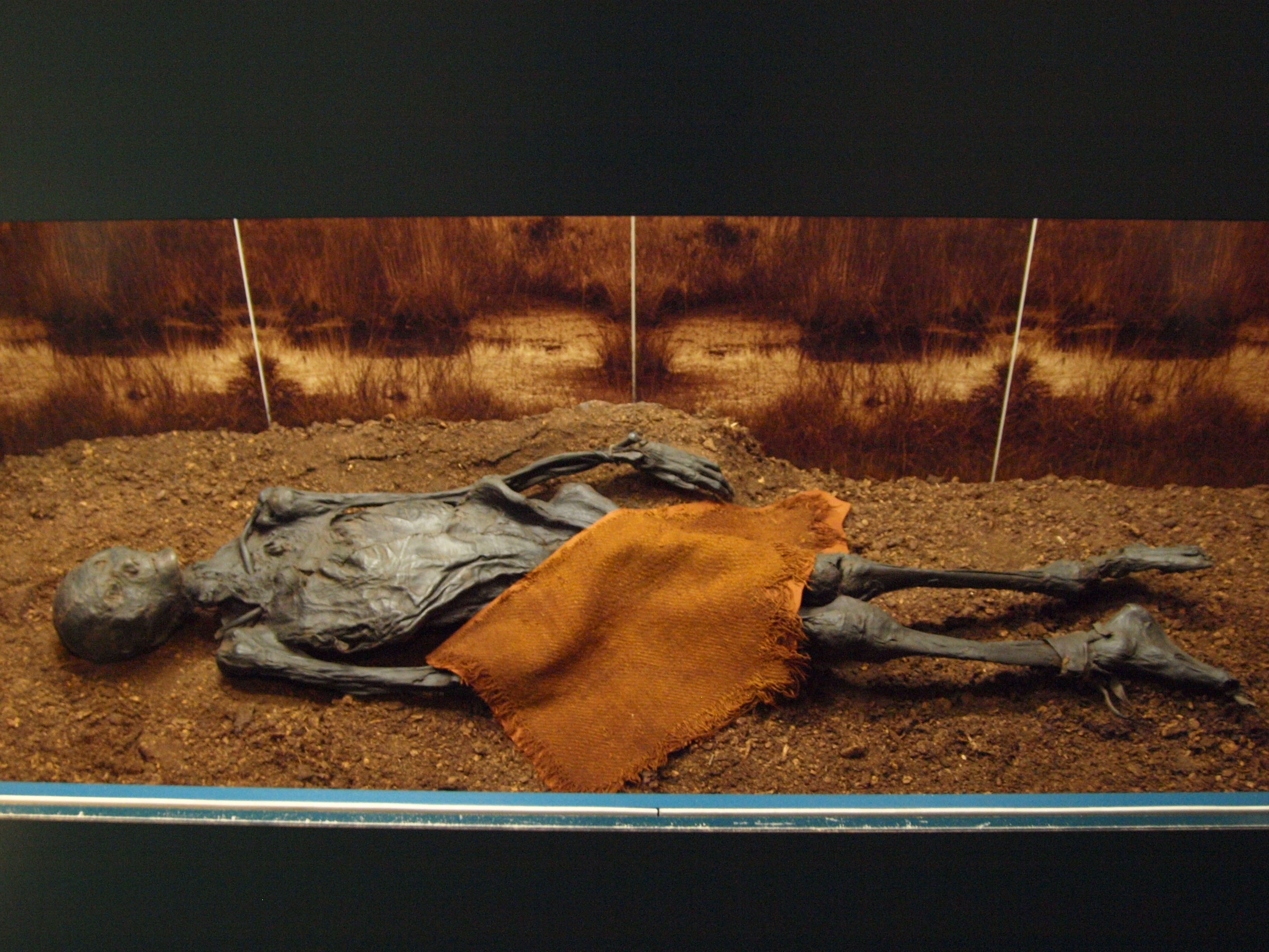 The bog body of the Rendswühren Man on display at Archäologisches Landesmuseum Gottorf Castle, Schleswig Germany. Found in 1871 in the Heidmoor near Rendswühren. Dated around 1st or 2nd century AD.